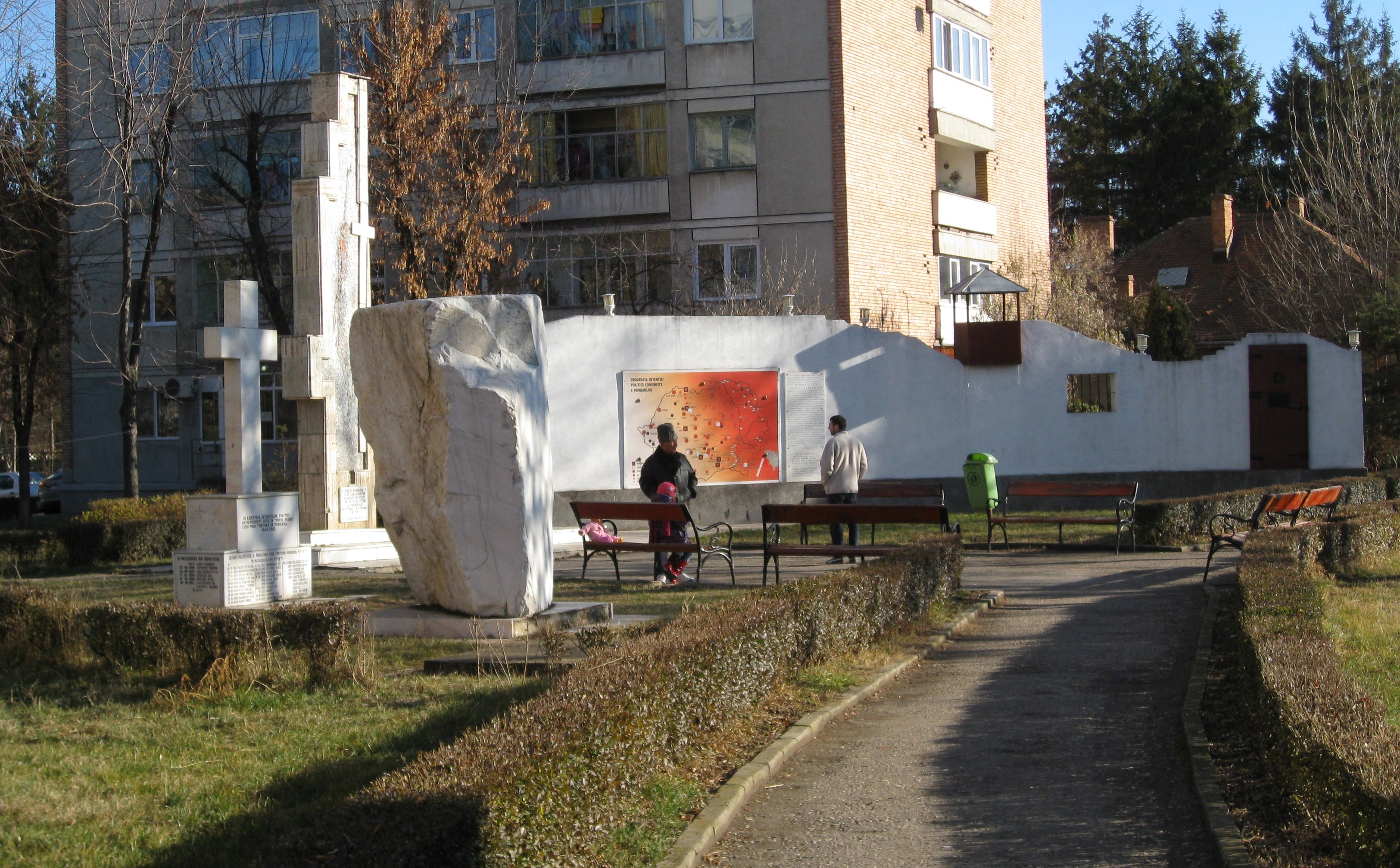 Monument to the Piteşti prison in Romania